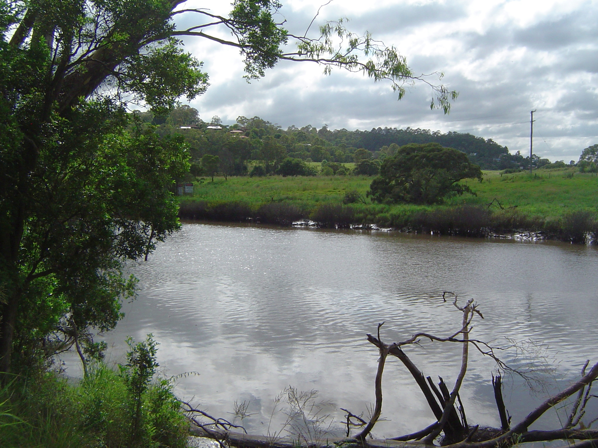 Photo of Bethania and Logan River from Meadowbrook, Logan City, Queensland, Australia.